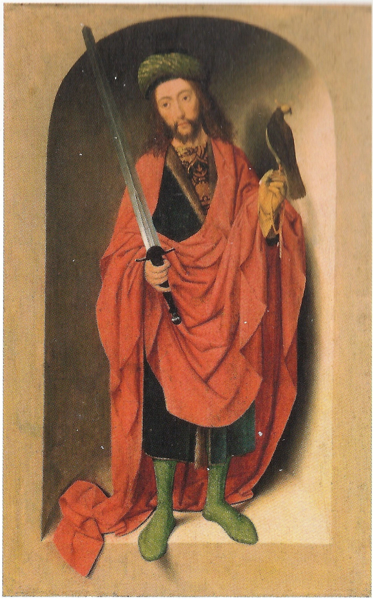 Detail of a diptych